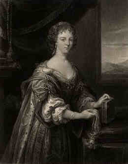 Portrait of Blanche Somerset